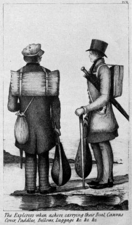 Two-man Halkett boat deflated and dismantled